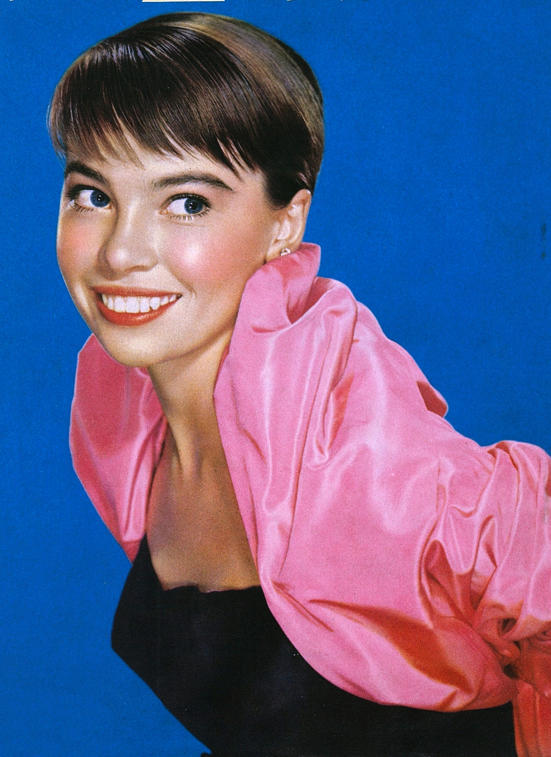 Leslie Caron from the cover of Eiga no Tomo (December 1953)